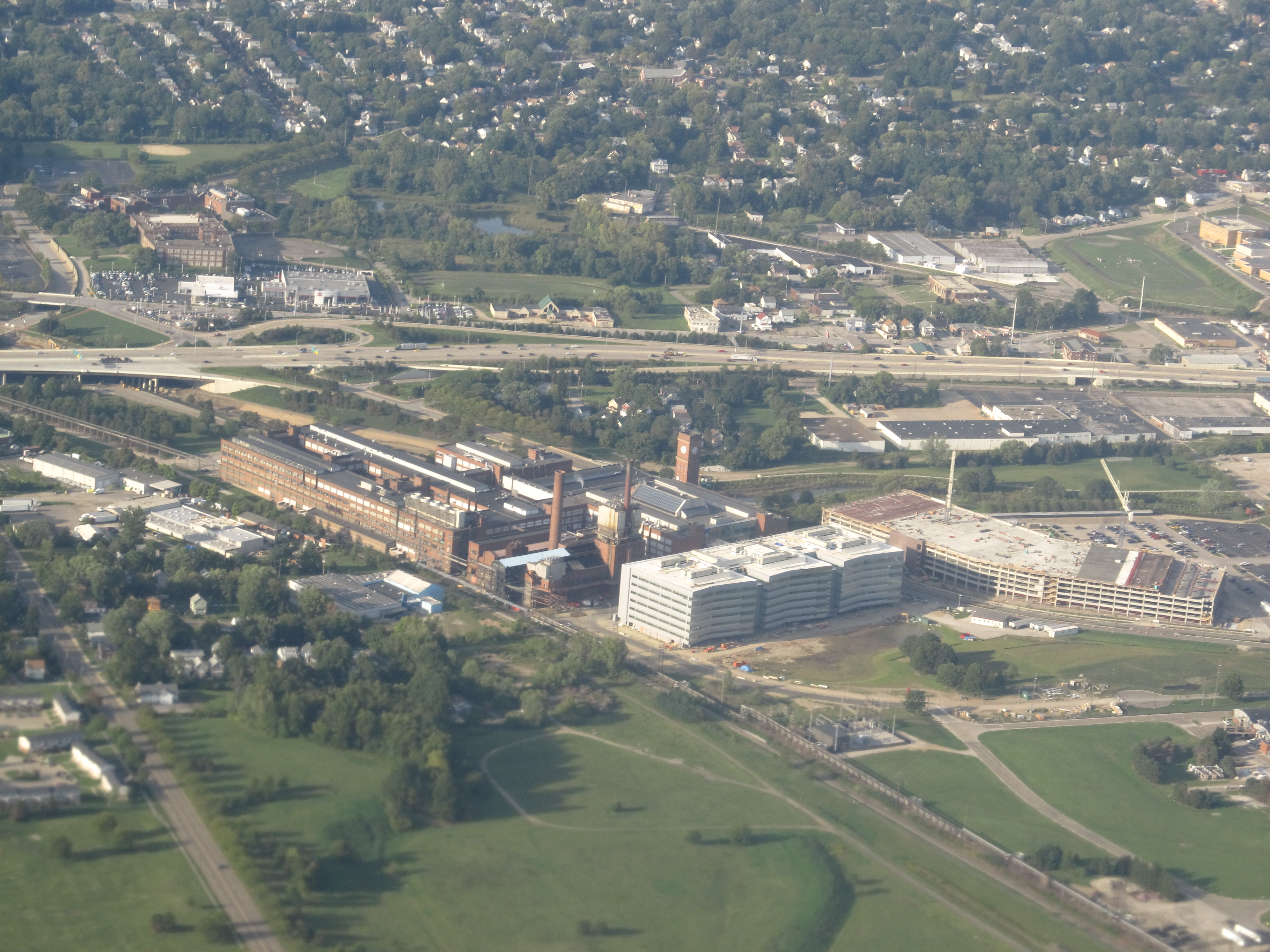 The Goodyear Tire & Rubber Company was founded in 1898 by Frank Seiberling in Akron, Ohio. Goodyear manufactures tires for automobiles, commercial trucks, light trucks, SUVs, race cars, airplanes, farm equipment and heavy earth-mover machinery. Even though he had no connection with the company, it was named after Charles Goodyear. Goodyear invented vulcanized rubber in 1839. The first Goodyear tires became popular because they were easily detachable and low maintenance. Goodyear is known throughout the world for the Goodyear Blimp. The first Goodyear blimp flew in 1925. Today it is one of the most recognizable advertising icons in America. The company is the most successful tire supplier in Formula One history, with more starts, wins, and constructors' championships than any other tire supplier. They pulled out of the sport after the 1998 season. It is the sole tire supplier for NASCAR series.